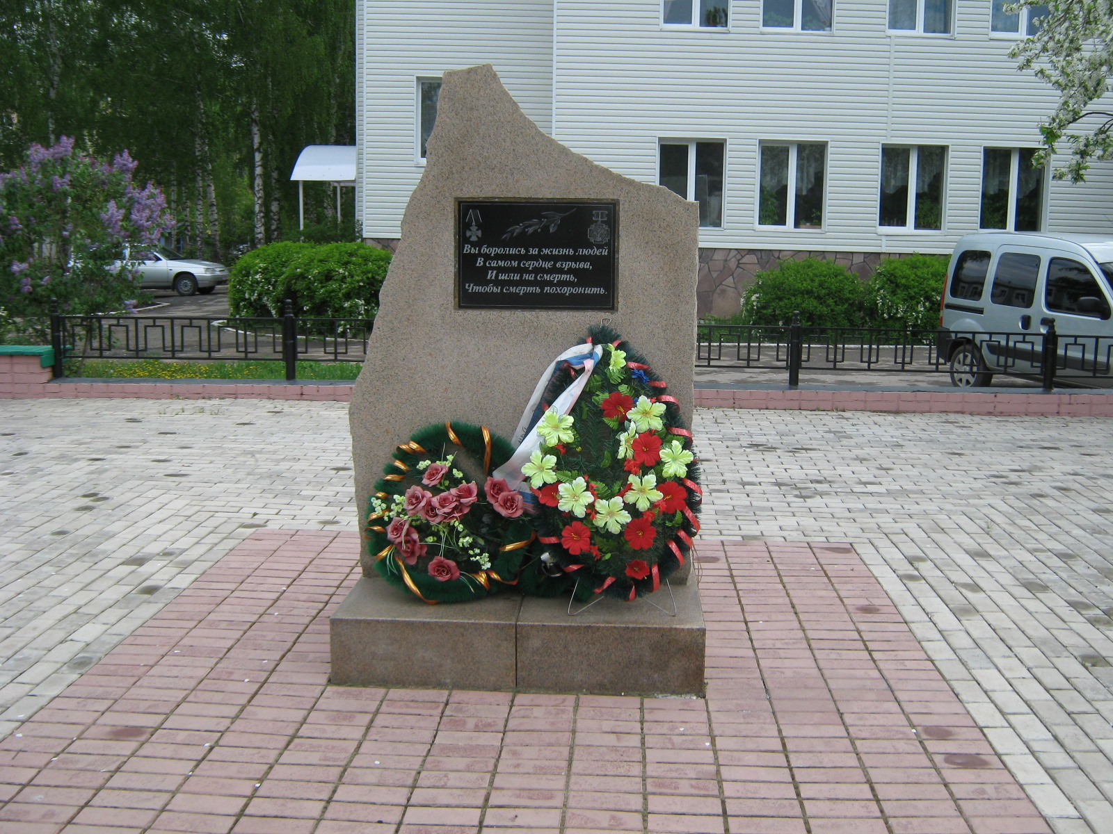 Beloretsk: Monument to liquidators of the Chernobyl disaster